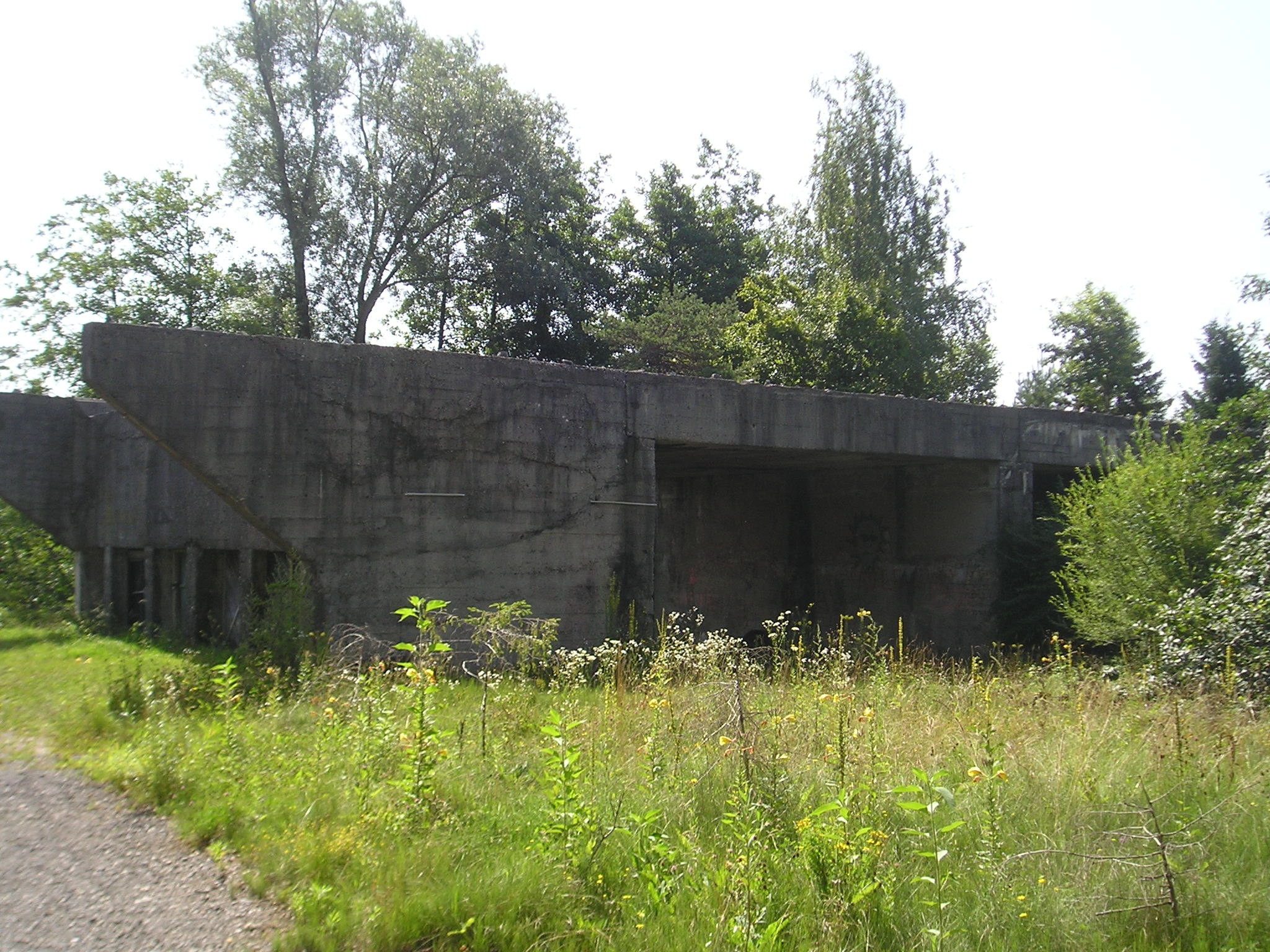 A bridge (built in) for the the planned but never built "5th Congress Railroad", located in Dravlje District, Ljubljana, Slovenia